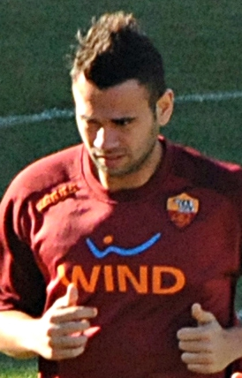 Leandro Castan before the game between Liverpool and AS Roma at Fenway Park, 25 July 2012.